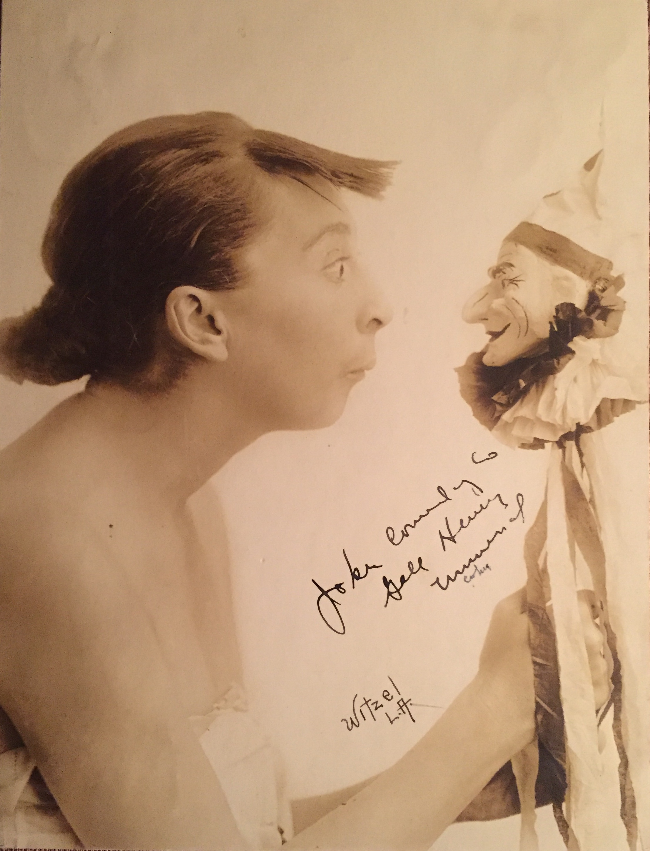 Gale Henry Joker Comedies 1915 Publicity Photo Witzel Photography Studio